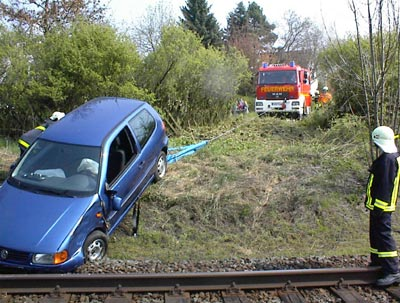 Removal of a crashed vehicle from a railway track